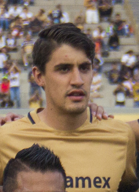 Club Universidad Nacional